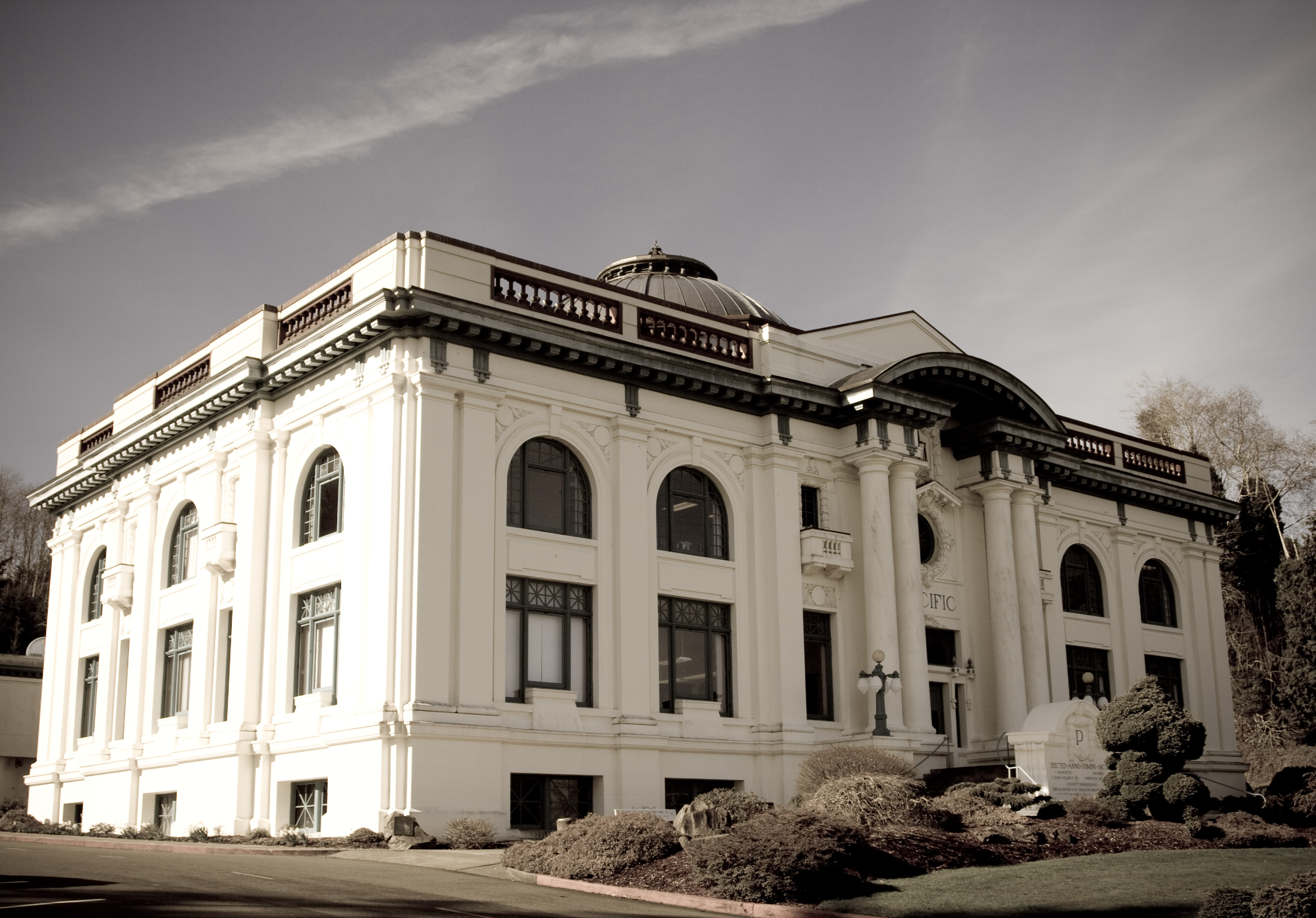 Pacific County courthouse.